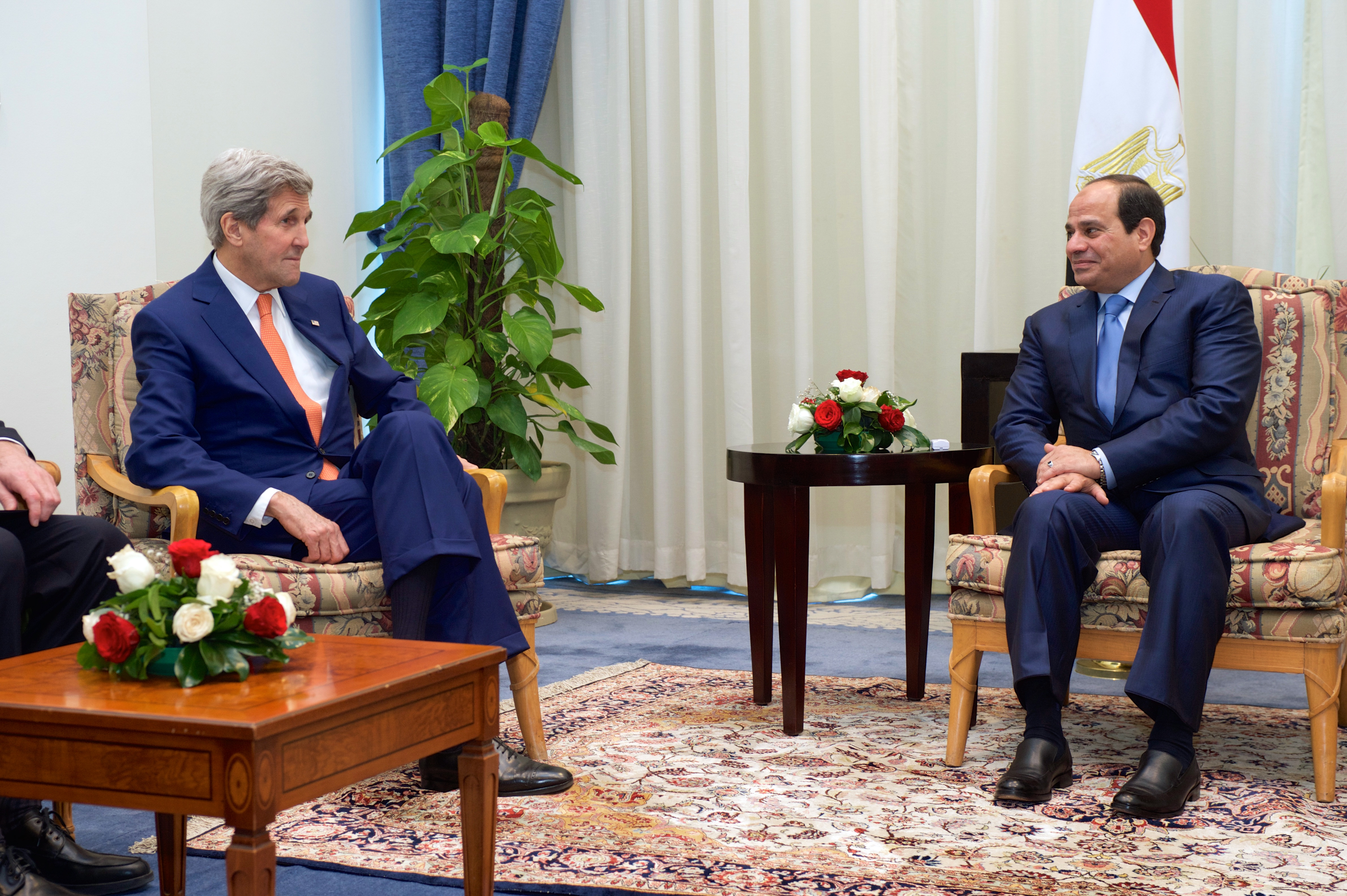 U.S. Secretary of State John Kerry sits with Egyptian President Abdel Fattah al-Sisi at the Congress Center in Sharm el-Sheikh, Egypt, on March 13, 2015, before a bilateral meeting and their attendance at an Egyptian development conference. [State Department Photo/Public Domain]